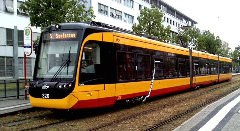 Vehicle #326 from Verkehrsbetriebe Karlsruhe while a testdrive.